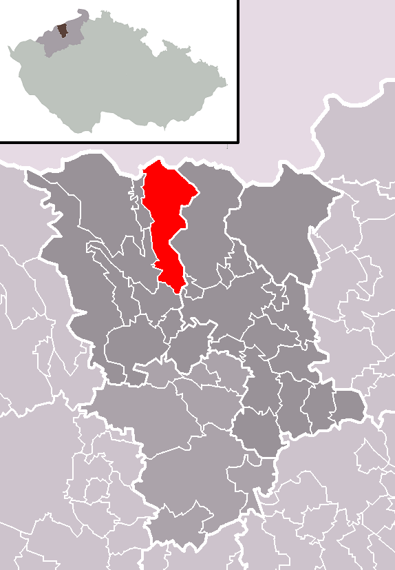 Location of Košťany town within Teplice District and administrative area of Teplice as a Municipality with Extended Competence.